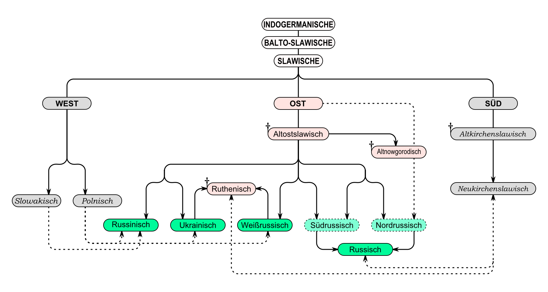 East Slavic Languages Tree (in German)